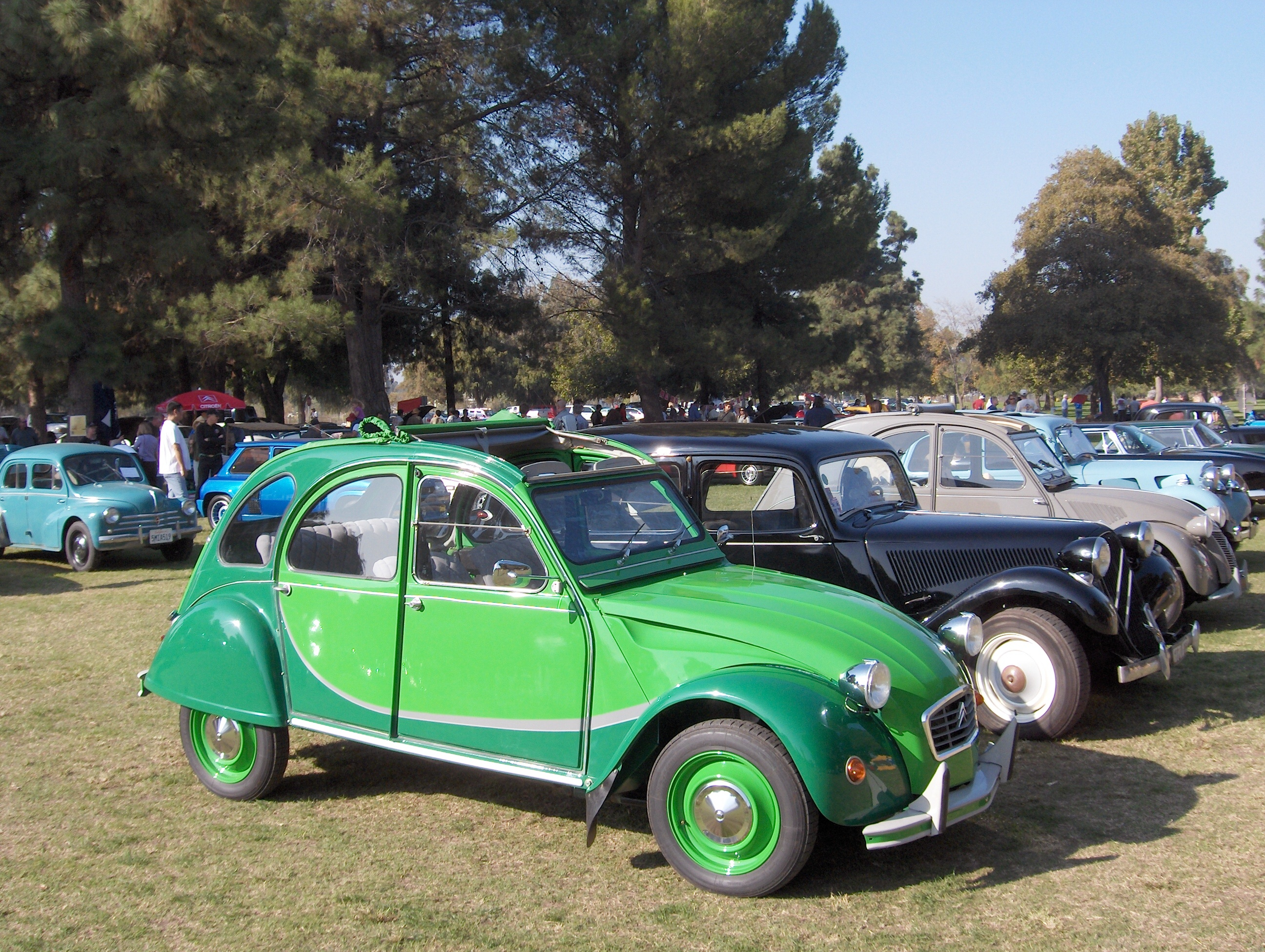 I took this photo in a public location.